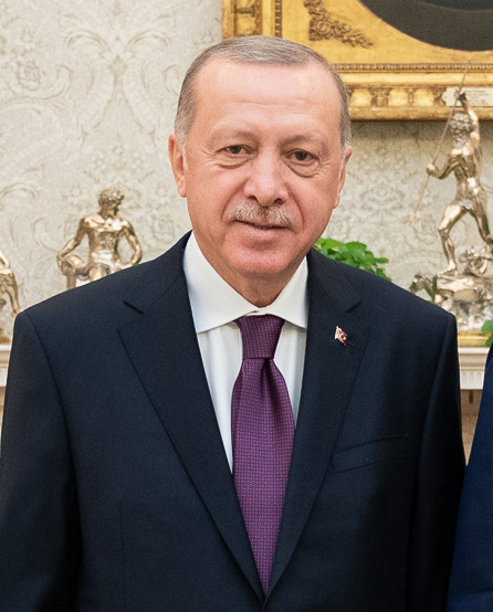 President Donald J. Trump and First Lady Melania Trump pose for a photo with Turkish President Recep Tayyip Erdogan and his wife Mrs. Emine Erdogan Wednesday, Nov. 13, 2019, in the Oval Office of the White House. (Official White House Photo by Shealah Craighead)